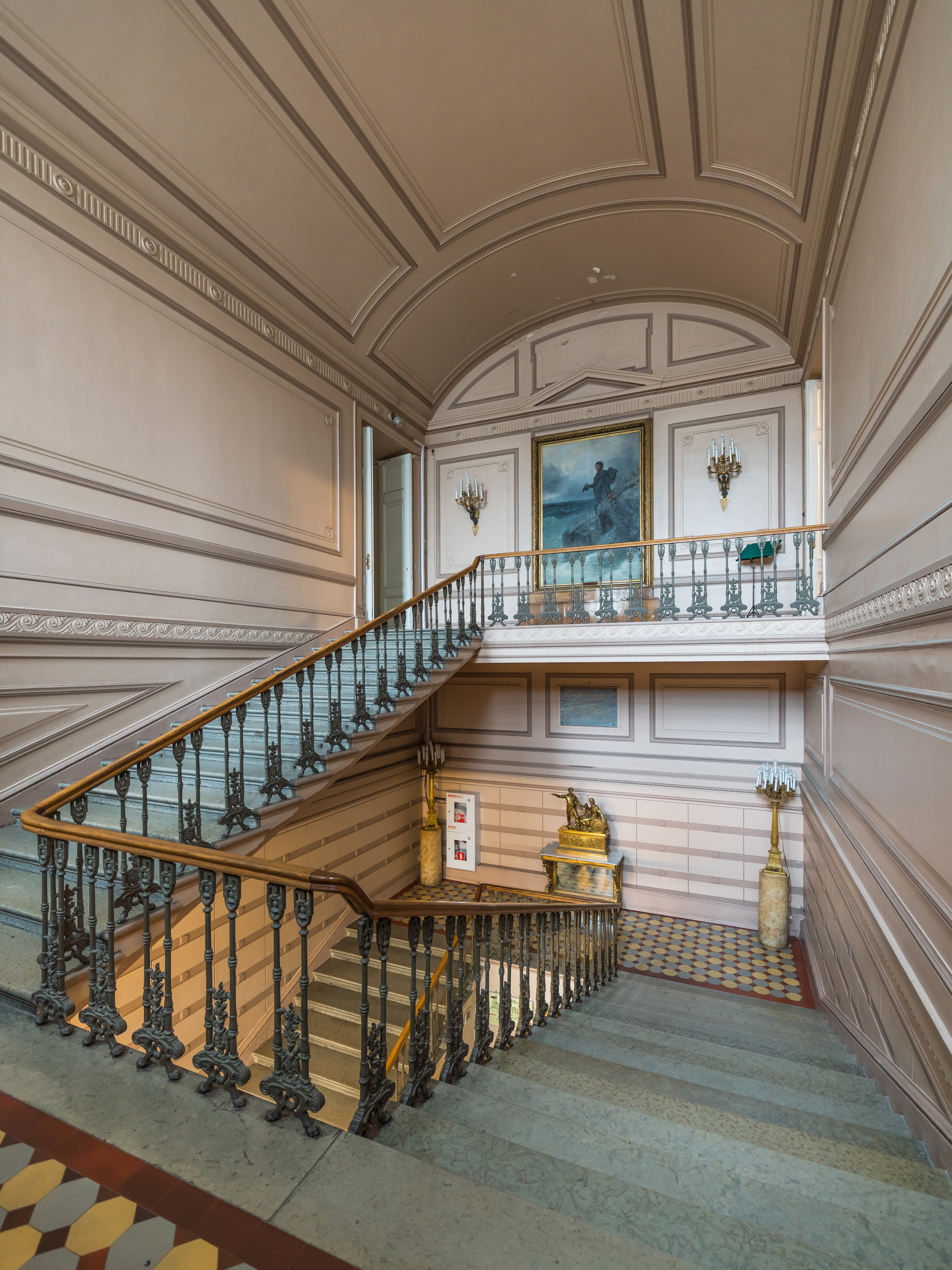 Interior of the Pushkin House on Vasilievsky Island in Saint Petersburg, Russia